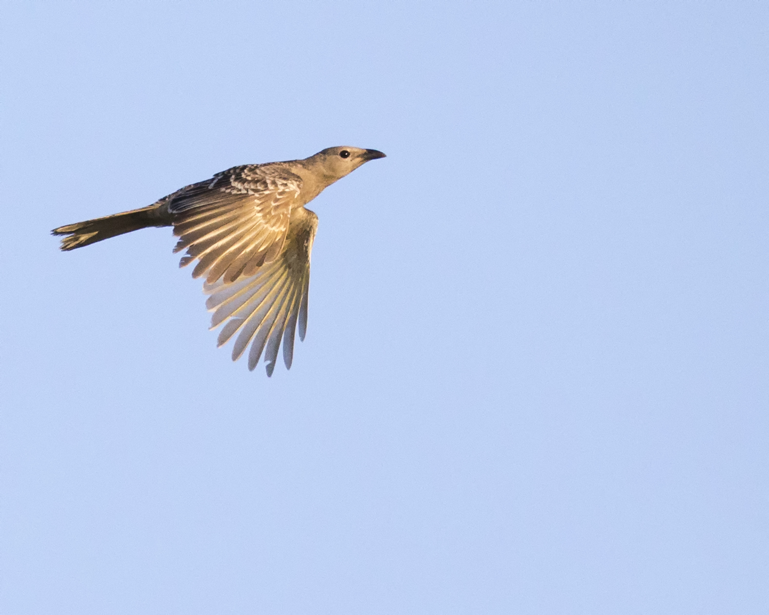 A long crop of a great bowerbird over the Coleman river on Cape York, Queensland. A very common bird with some endearing habits, A Steptoe & Son, for sure!